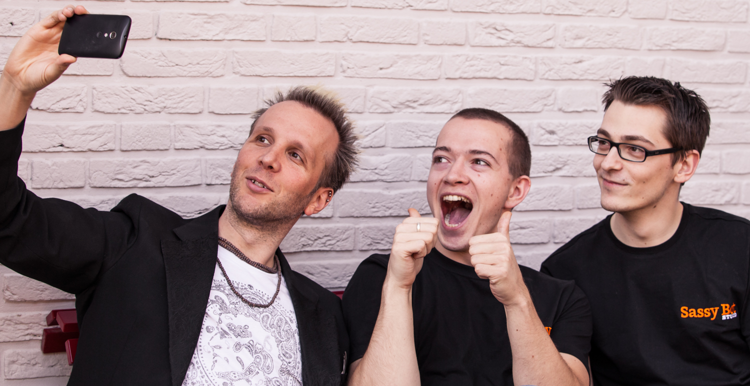 The team behind Sassybot's video game, Fragments of Him.